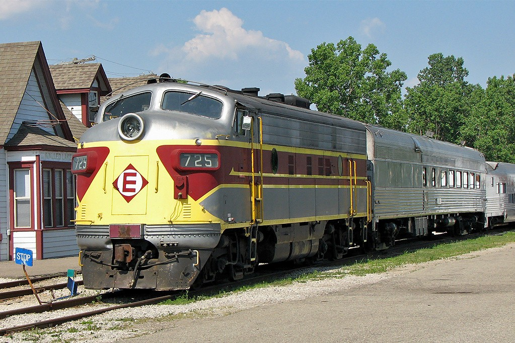 Michigan Star Clipper Dinner Train. The second car back was part of the Pennsylvania Railroad's Keystone "tubular train."